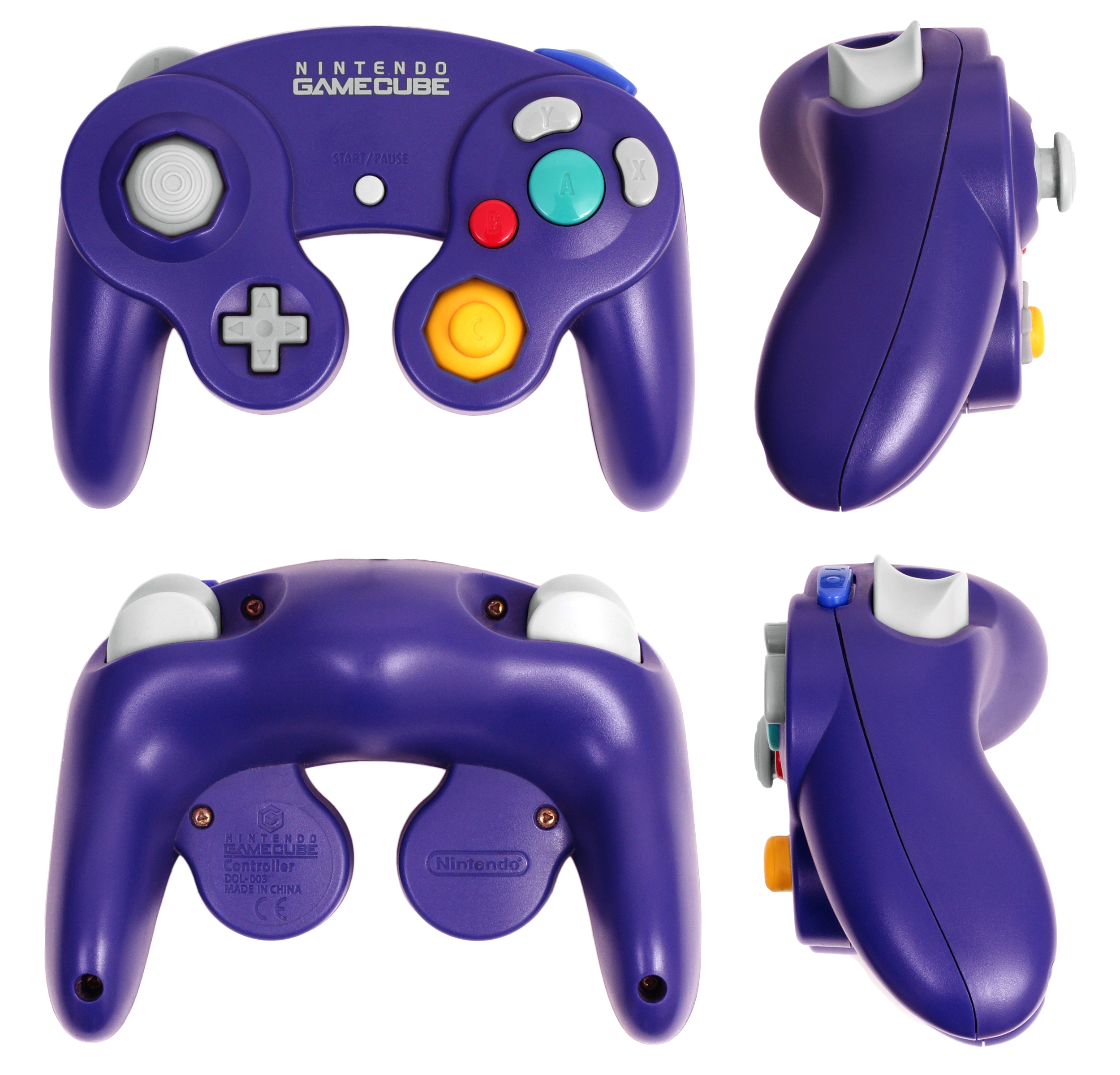 A breakdown of the GameCube controller, shown (clockwise from the top left) from the front, right, left and back.